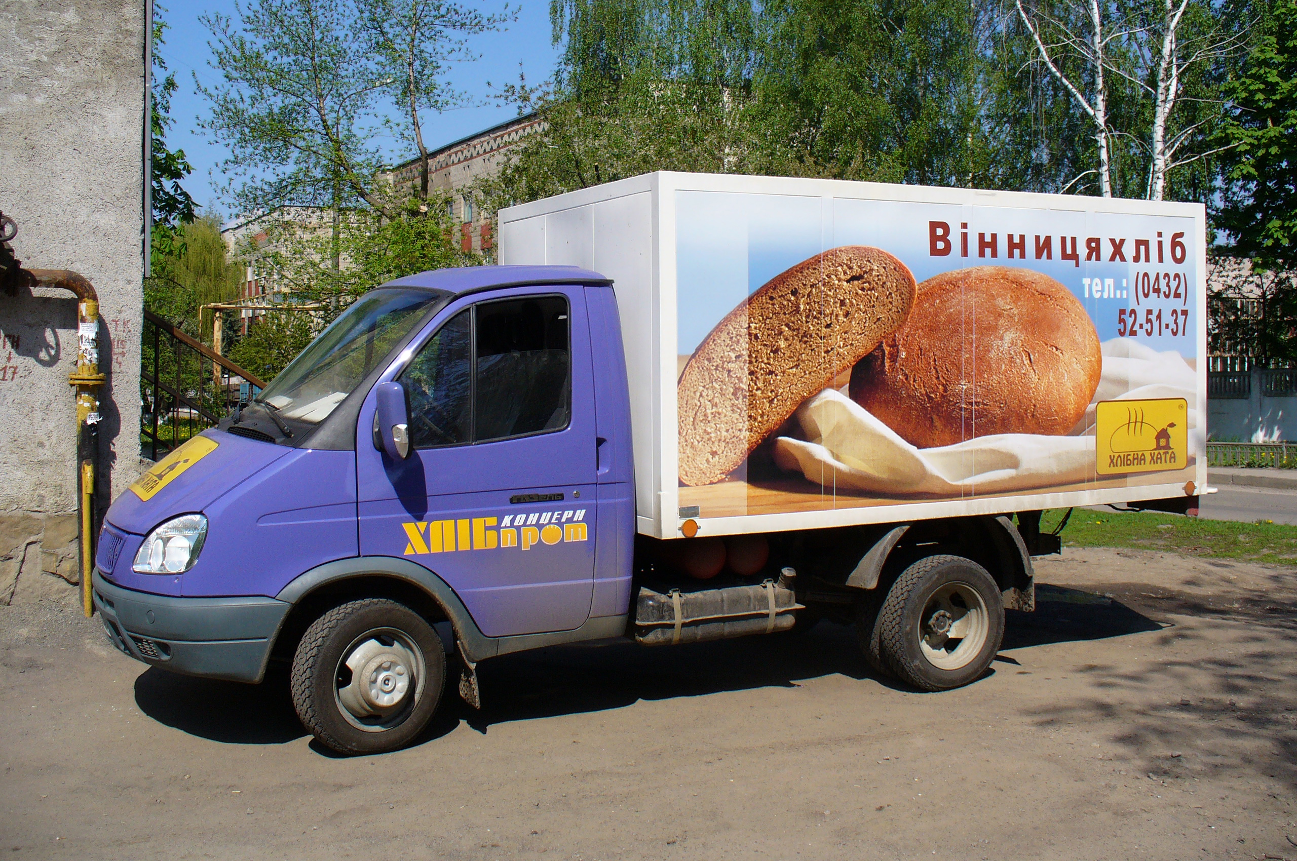 GAZ 3302 «GAZelle». A lot of trucks similar to it used for delivery of fresh bread in shops. Ukraine, Vinnitsa.